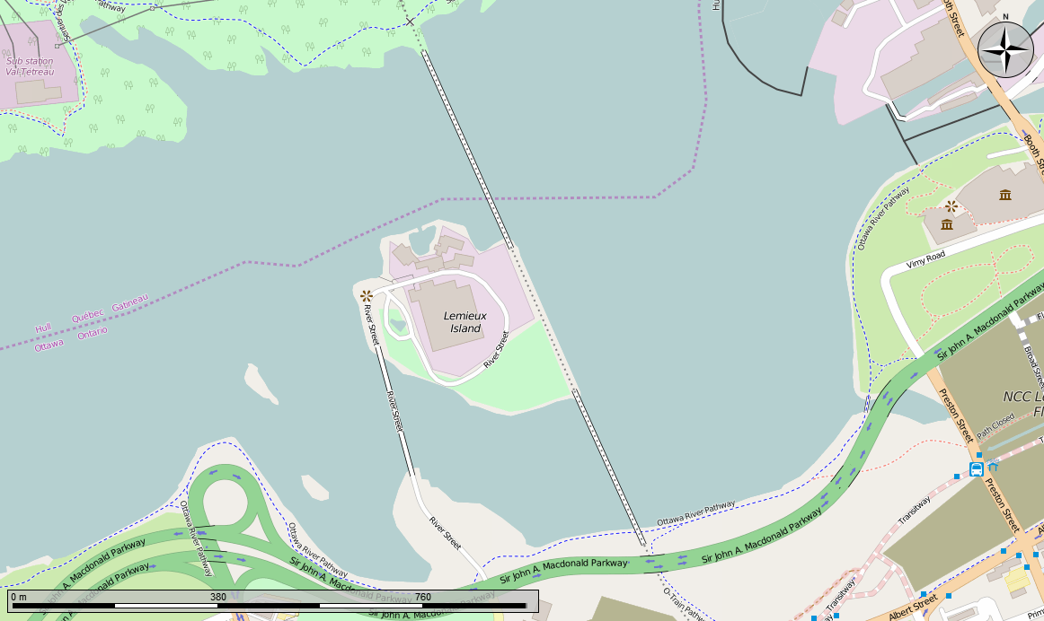 Open Street Map showing Lemieux Island. Ottawa is at the bottom, Gatineau is at the top.